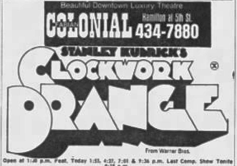 Colonial Theater advertisement for the film A Clockwork Orange (1971) - 11 Jul. 1972 Morning Call, Allentown PA. At the time of this ad, the film was rated X in the Unite States.